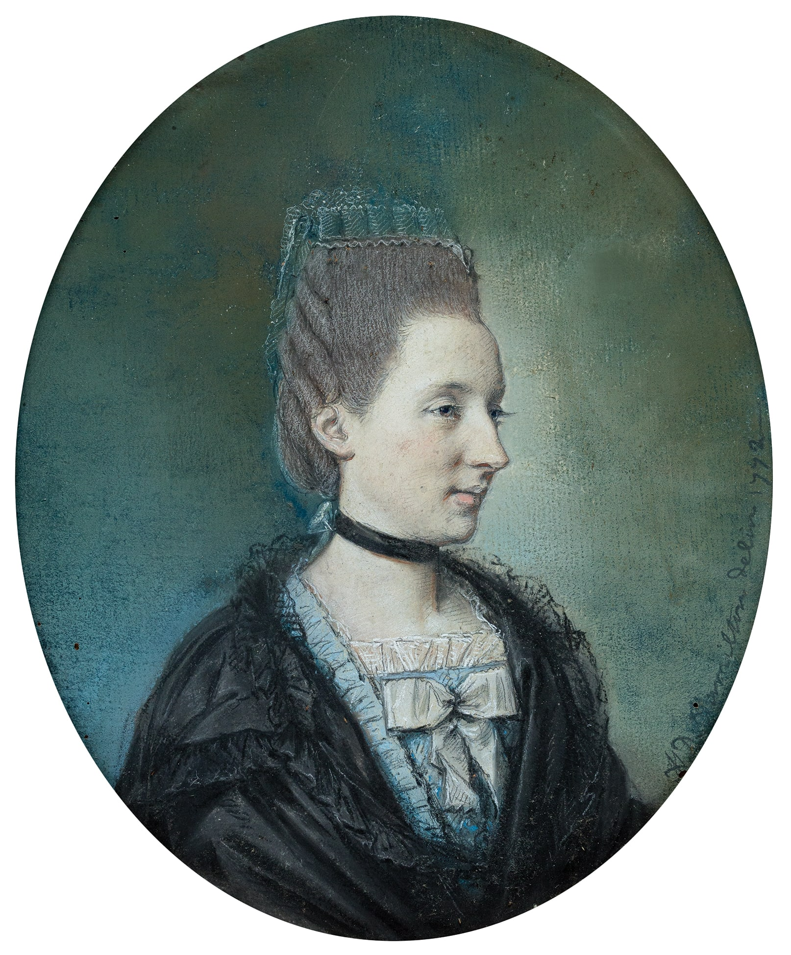 Susan, Countess of Westmorland, née Lady Susan Gordon, by Hugh Douglas Hamilton. Pastels. Signed and dated, 1772. Signed and inscribed verso by the artist, ‘Susan, Countess of Westmorland / 1772, W D Hamilton Delt’. 9.75x7.75 inches. Framed: 14x12 inches. Provenance: The sitter’s daughter, Lady Mary Fludyer, née Fane; Sir John Fludyer 5th Bt.; his sister Katherine, Mrs Henry Finch, and by descent. Lit: Neil Jeffares Dictionary of Pastellists before 1800, J.375.19725. Offered for sale by Abbott and Holder in October 2019: ref:Hamilton-97039.